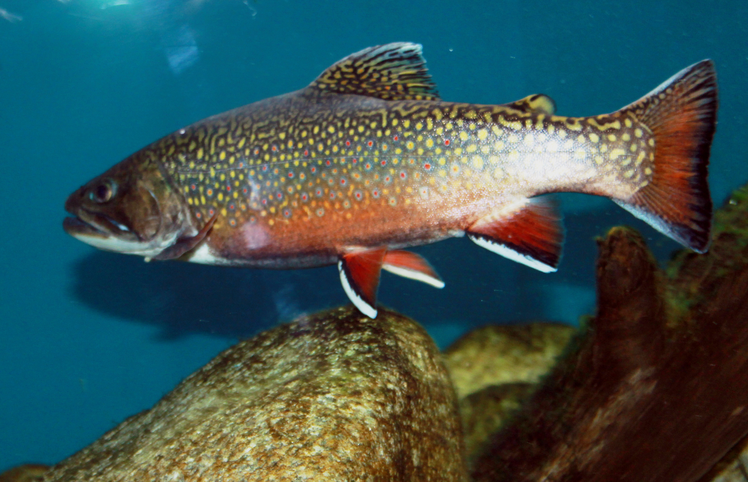 Fish Brook trout on exhibition Subaqueous Vltava, Prague 2011, Czech Republic